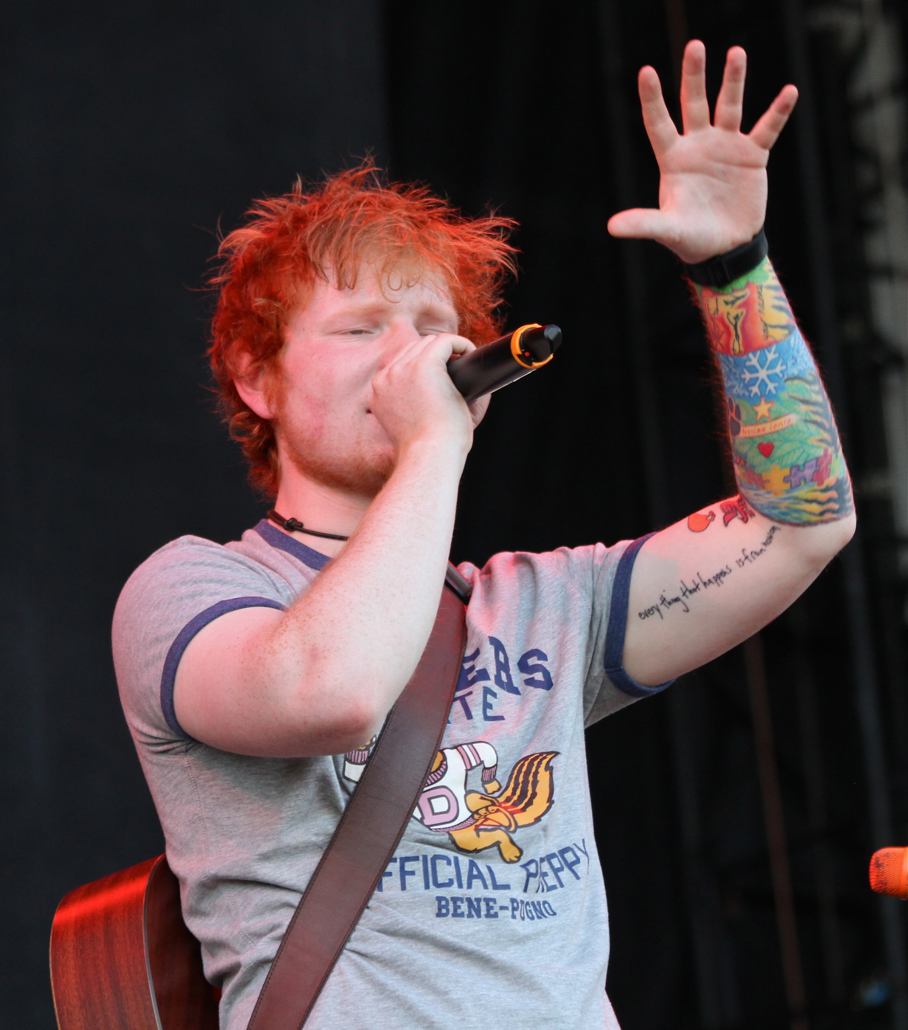 Posted via email from Globalite Magazine